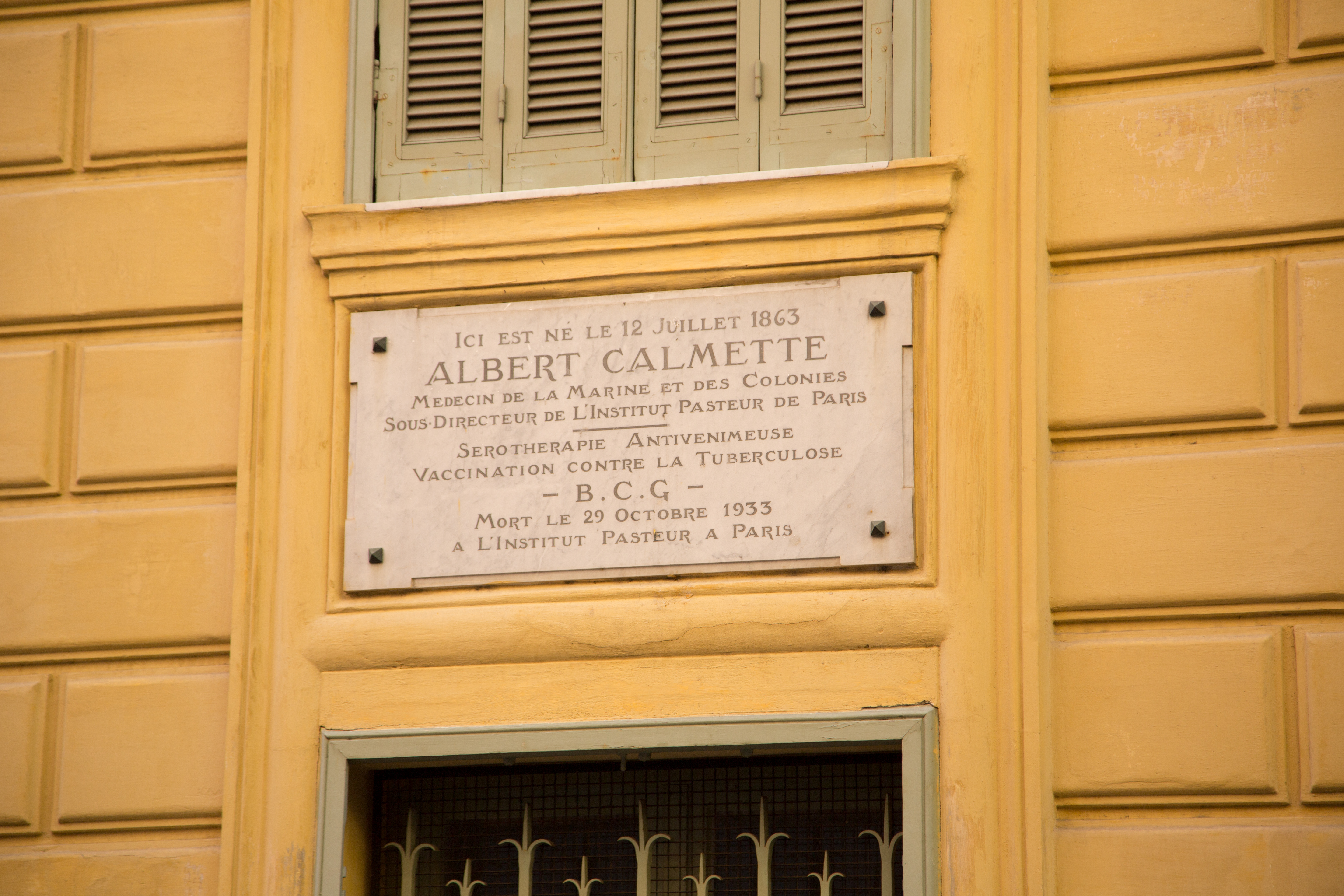 Nice, France